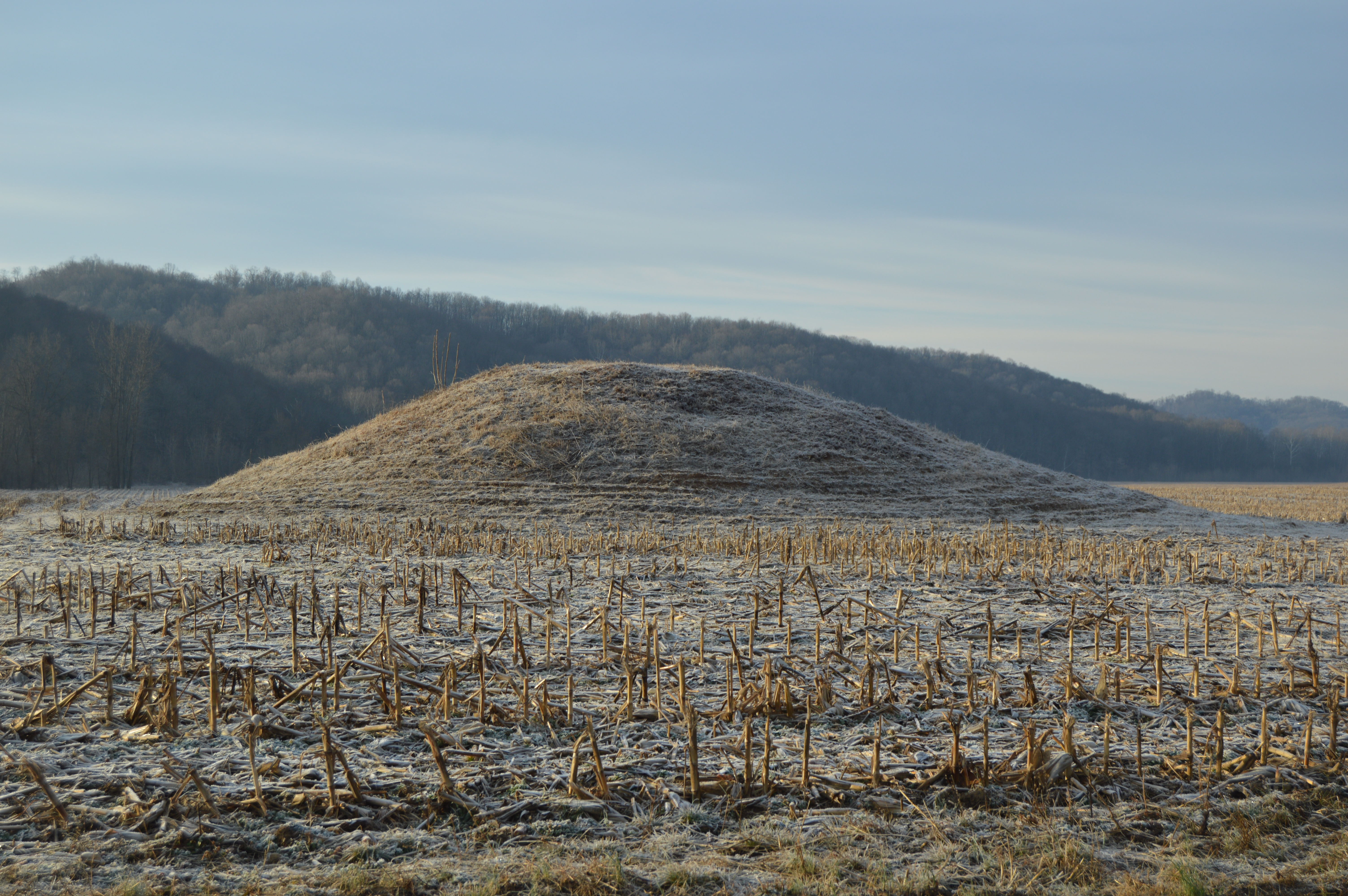 Northern side of the Ratcliffe Mound, located on the southern side of State Route 327 northeast of Londonderry in Eagle Township, Vinton County, Ohio, United States. As a significant architectural site, it is listed on the National Register of Historic Places.